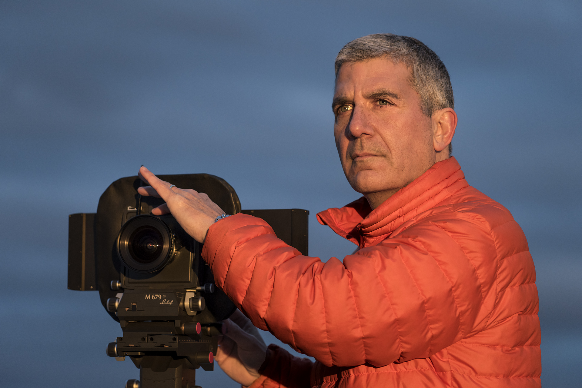 Stephen Wilkes, b. 1957, as photographed in 2016.